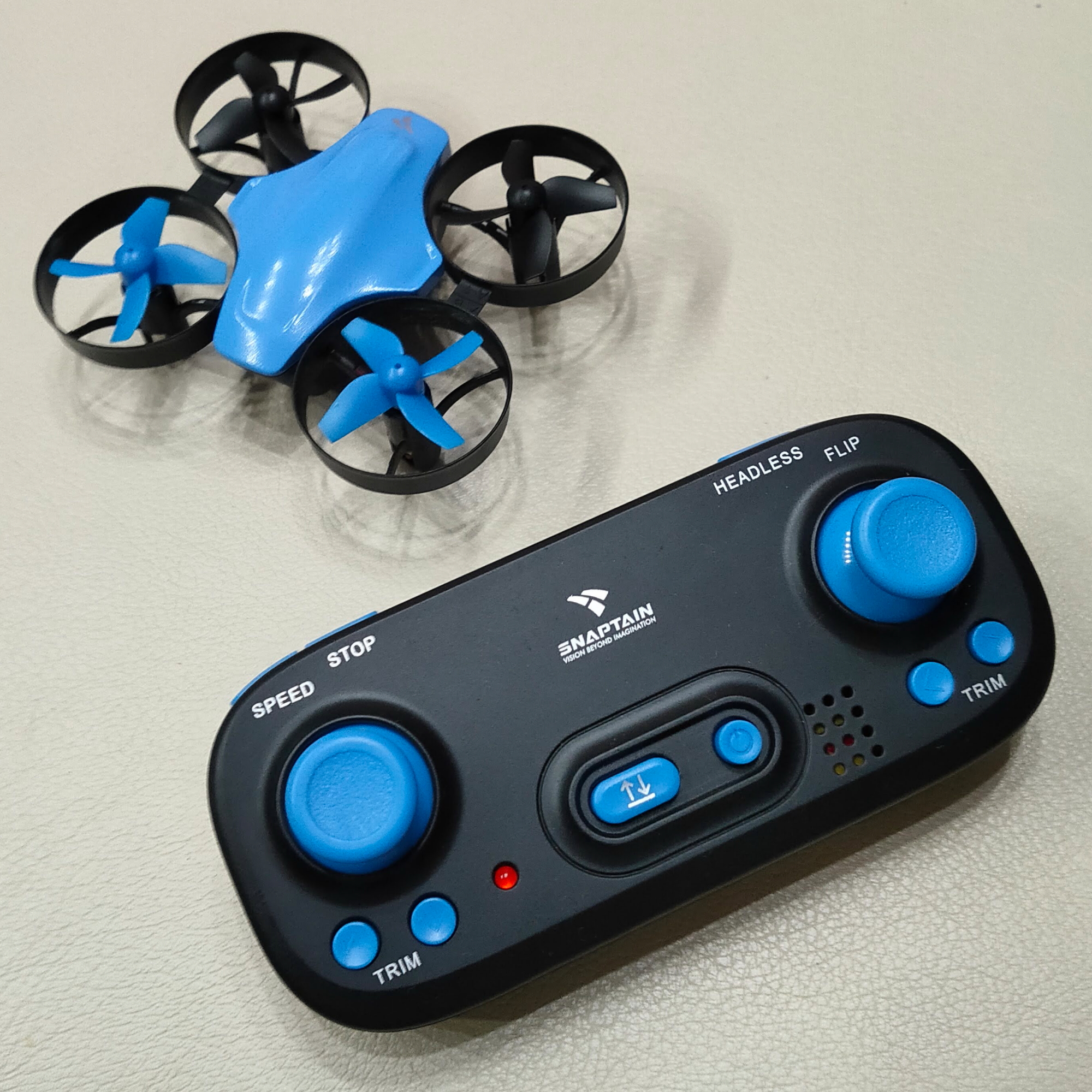 SNAPTAIN Mini Drone SP350